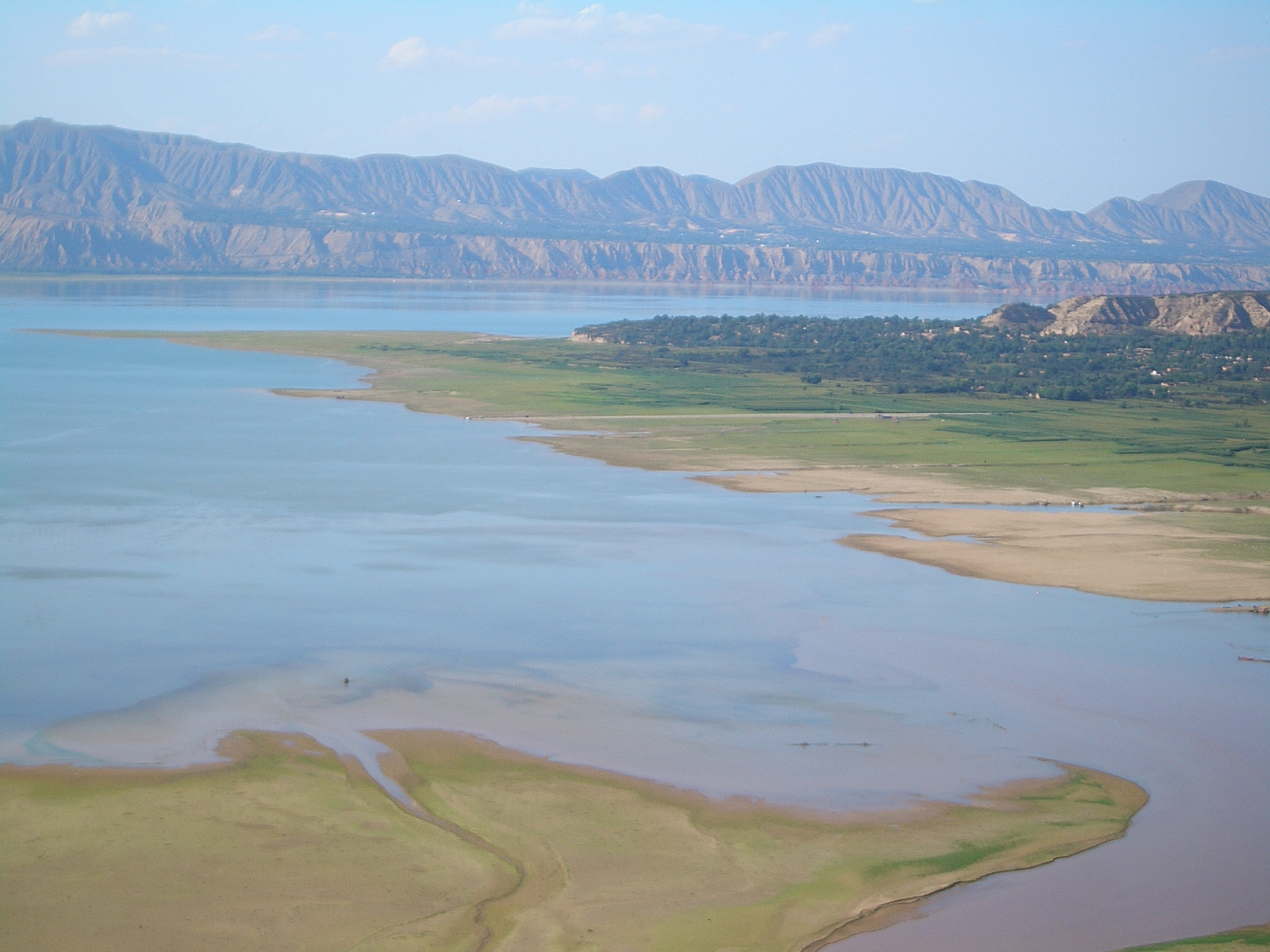 The fall of the Daxia River into the Liujiaxia Reservoir. Foreground - Linxia County, the peninsula in the middle right is the tip of the Dongxiang County, and the mountains in the background are in Yongjing County.